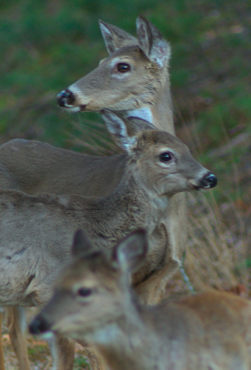 White-tailed deer (Odocoileus virginianus) feeding at roadside